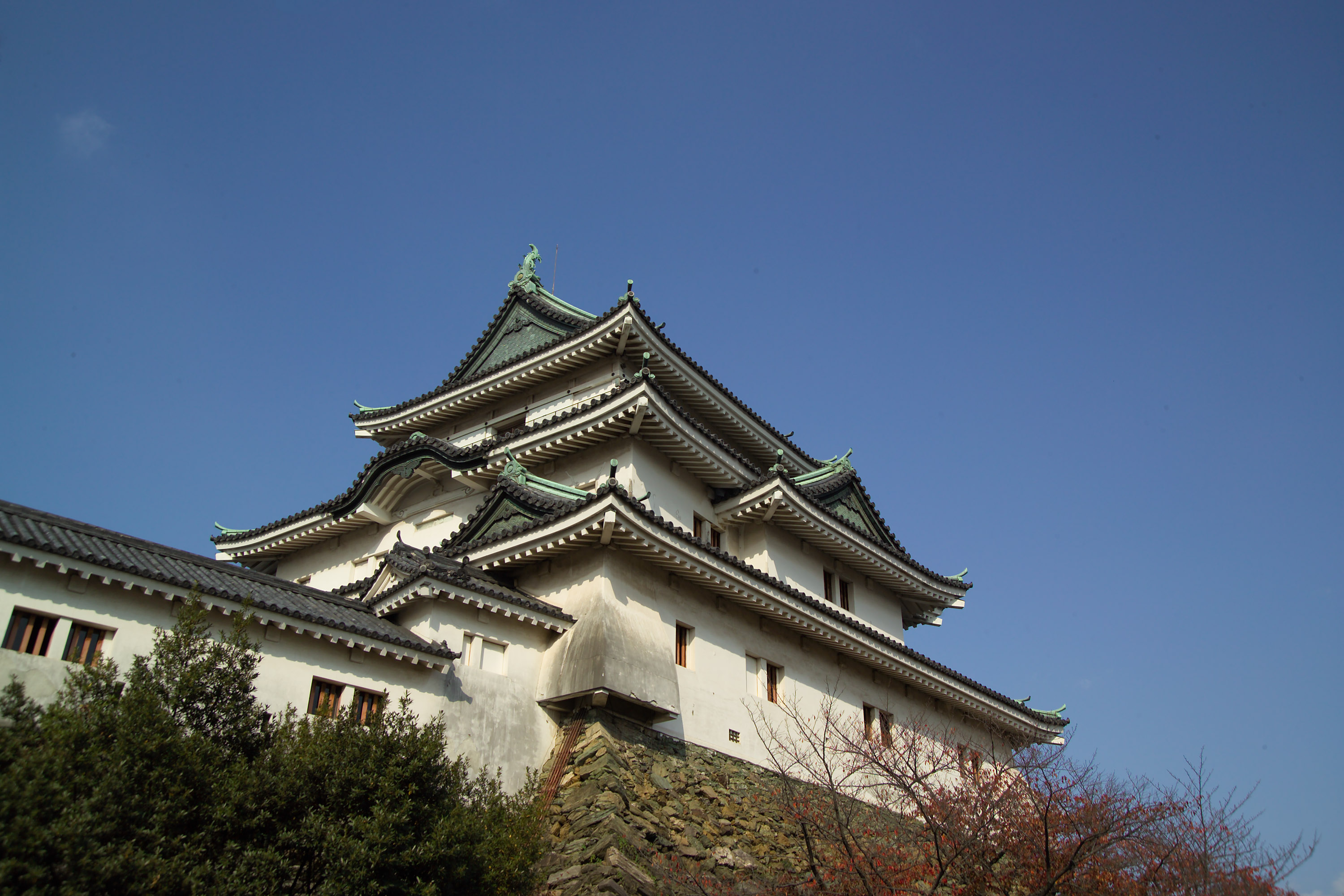 This photograph shows Wakayama Castle in the city of Wakayama, Wakayama Prefecture, Japan. I took the photo and release all my rights in the file to the public domain; individuals and organizations retain rights to images in it.